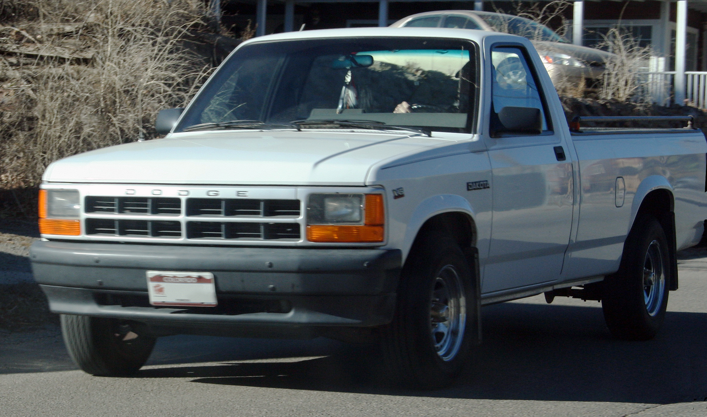 1991 Dodge Dakota V6 - this was the only year with the rounded facelift nose in combination with classic sealed-beam headlights. For 1992, the Dakota received flush-fitting headlights.